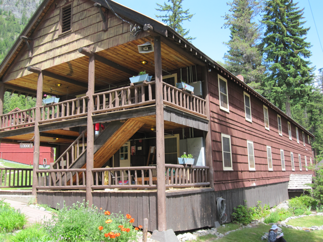 Image of Lodge 3 at Holden Village, taken late June, 2010.